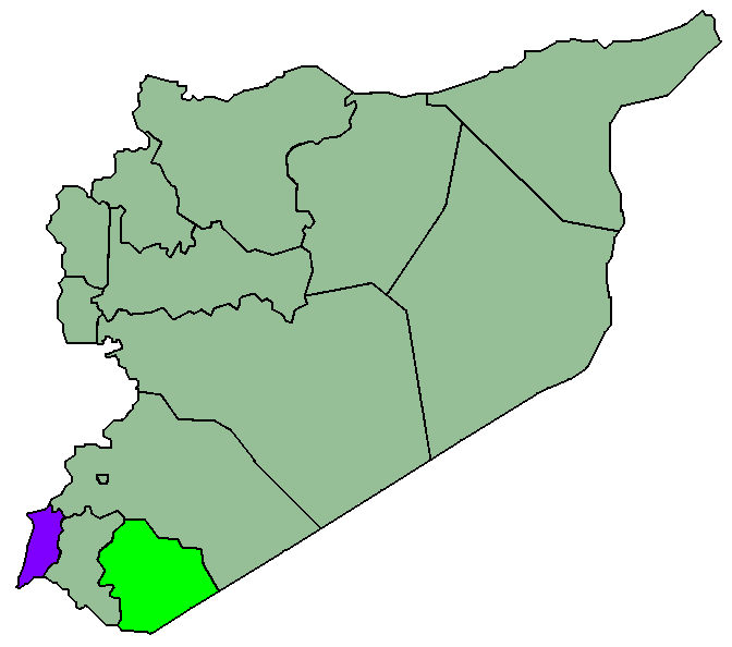 the syrian governate of as suwaida.